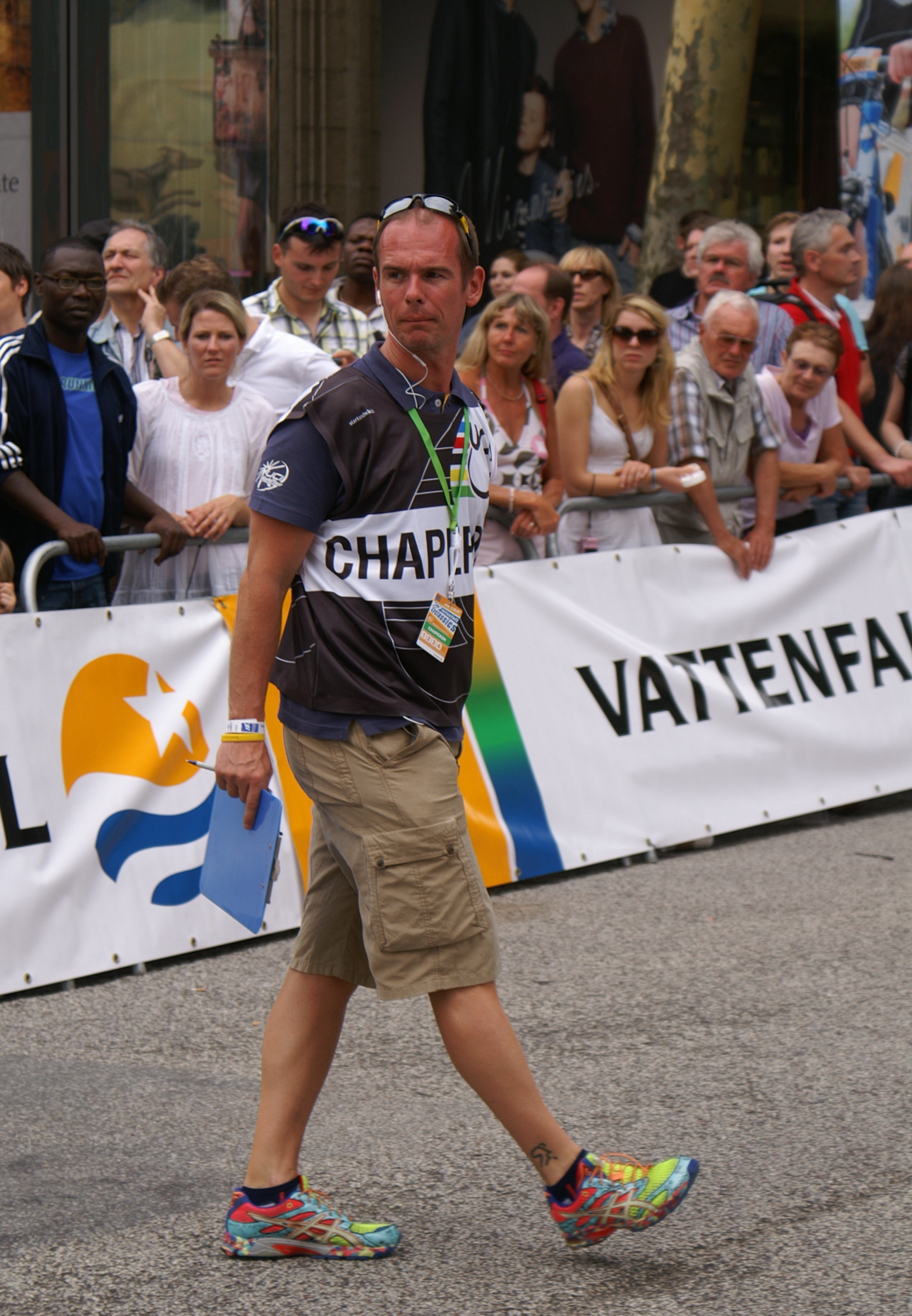 Vattenfall Cyclassics 2011 Chaperon